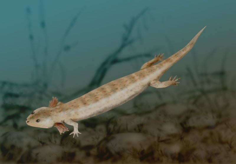 Microbrachis pelikani, a lepospondyl from the late Carboniferous of the Czech republic, digital work